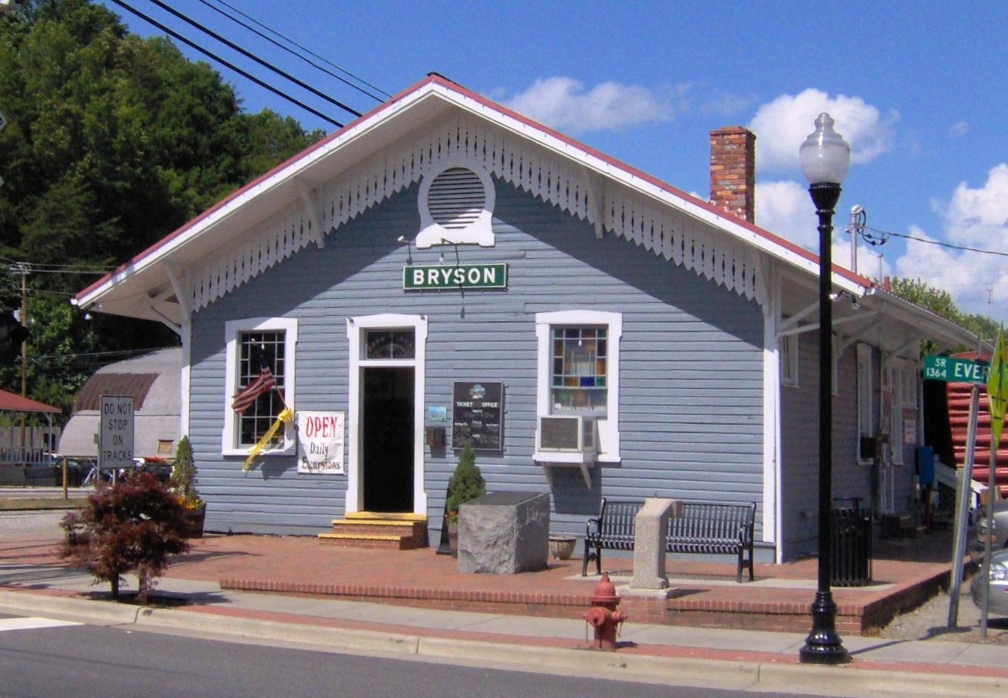 The Great Smoky Mountain Railroad depot at Bryson City, North Carolina, in the southeastern United States.